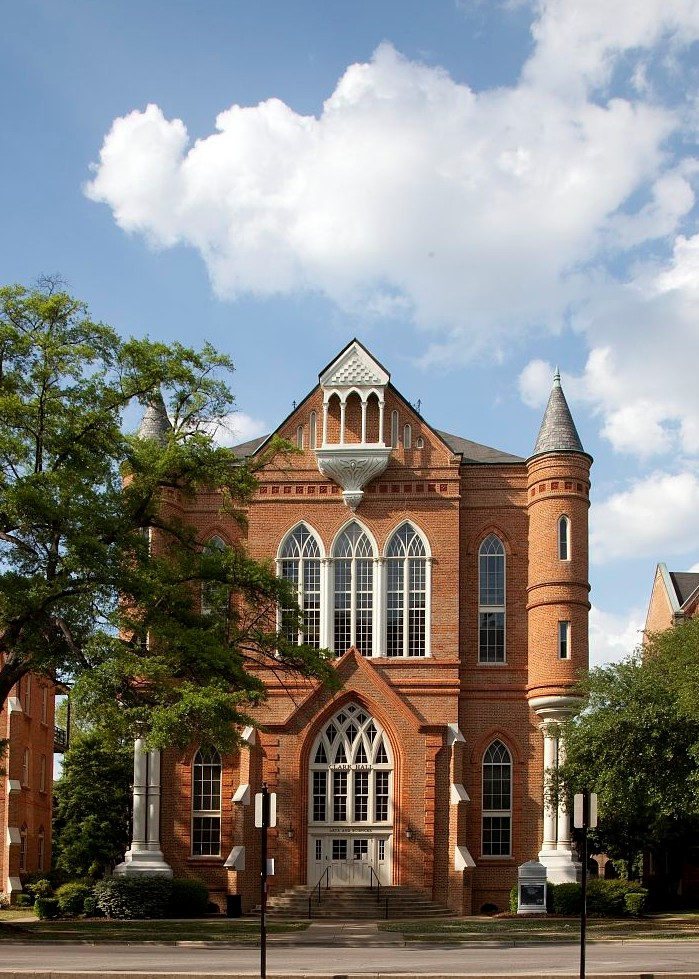 Cropped version of File:Clark Hall by Highsmith.jpg. Original caption: Clark Hall at the University of Alabama, Tuscaloosa, Alabama